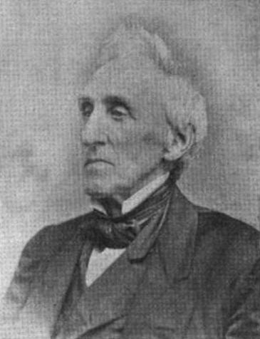 Thomas Belden Butler (August 22, 1806 – June 8, 1873) was a Whig politician from Norwalk Connecticut. He was Chief Justice of the Connecticut Supreme Court from 1870 to 1873. He was a member of the United States House of Representatives from Connecticut's 4th congressional district from 1849 to 1851. He had previously served as a member of the Connecticut Senate from 1847 to 1848 and a member of the Connecticut House of Representatives from 1832 to 1846.